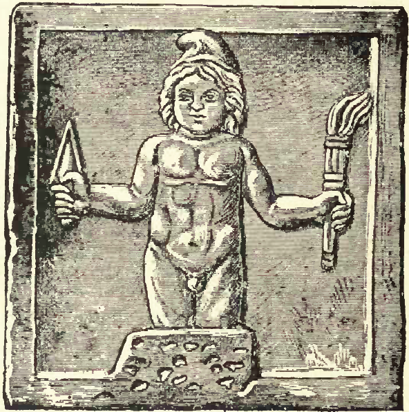 Mithras, Born from the rock, bas relief found in the crypt of St. Clements, Rome.